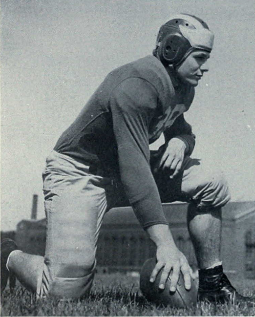 Photograph of Dan Dworsky